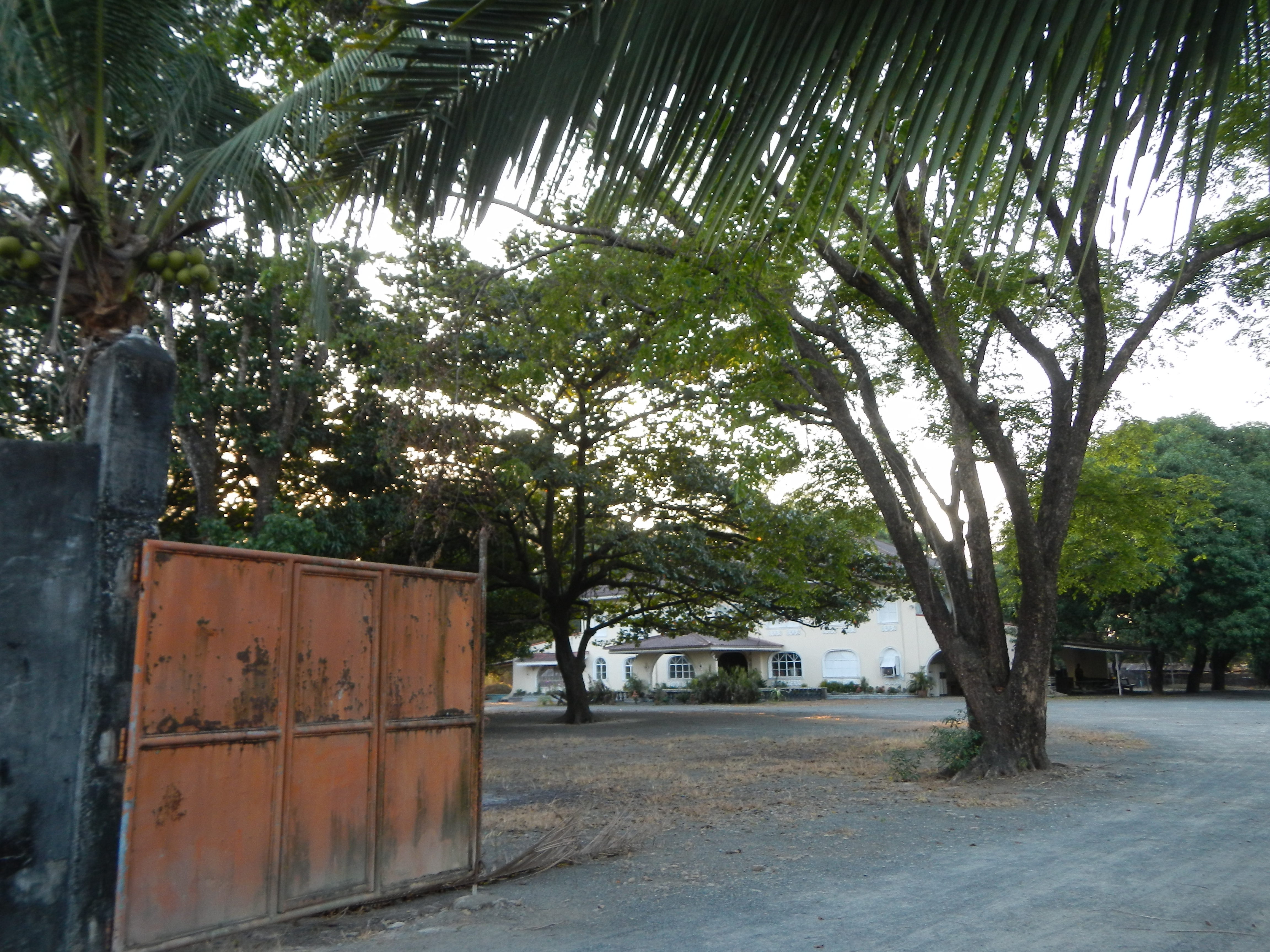 Castillejos, Zambales[1] is a municipality in the province of Zambales, Philippines. Castillejos is now a developing municipality because it has some commercial establishments like 7-eleven, Chic-boy, Andoks, and RM Mall which is the first mall in the town. The settlement we now know as Castillejos was founded sometime in the middle of the 18th century. According to Agustin Dela Cavada in his Historias Filipinas, the creation of Castillejos took place – 1743, while that of Subic in 1769. Jose Angelo M. Dominguez Mayor – July 1, 2010 – present[2][3]